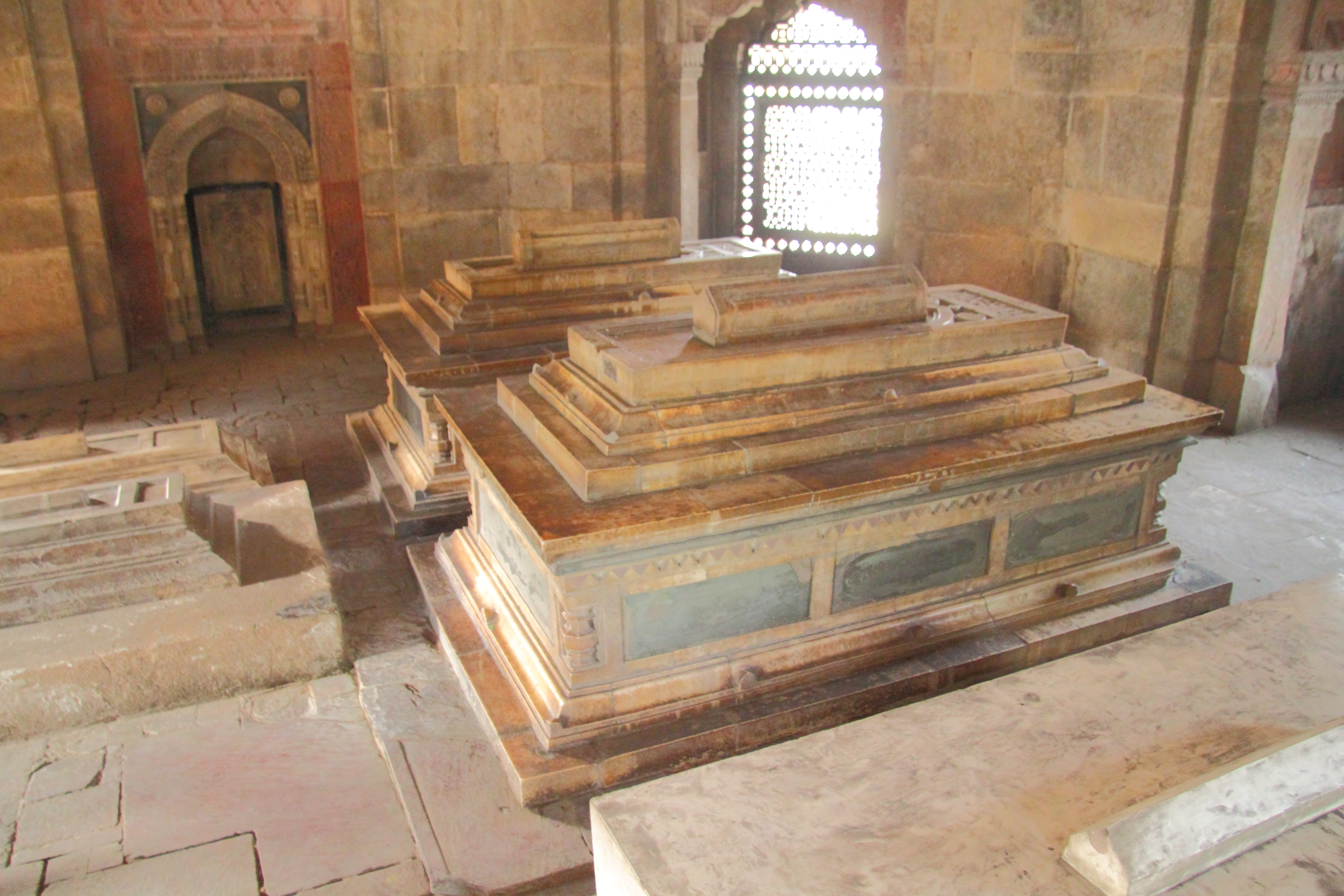 New Delhi, India: Tomb of Isa Khan Niazi, close to Humayun’s Tomb